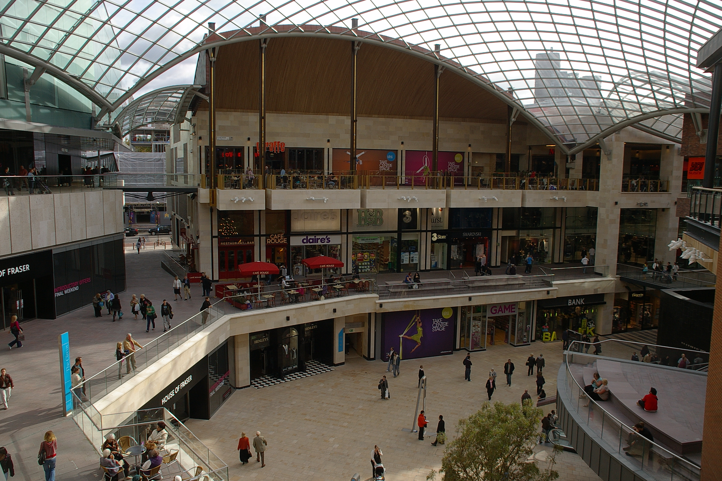 The "Glass House" area of the Cabot Circus shopping development in Bristol.